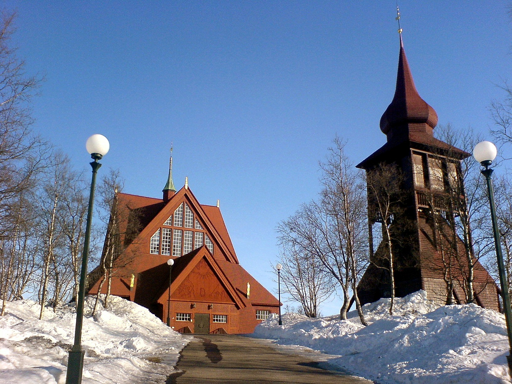 Kiruna kyrka during springtime.